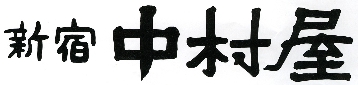 Yagō of Shinjuku Nakamuraya which is calligraphy of Nakamura Fusetsu.